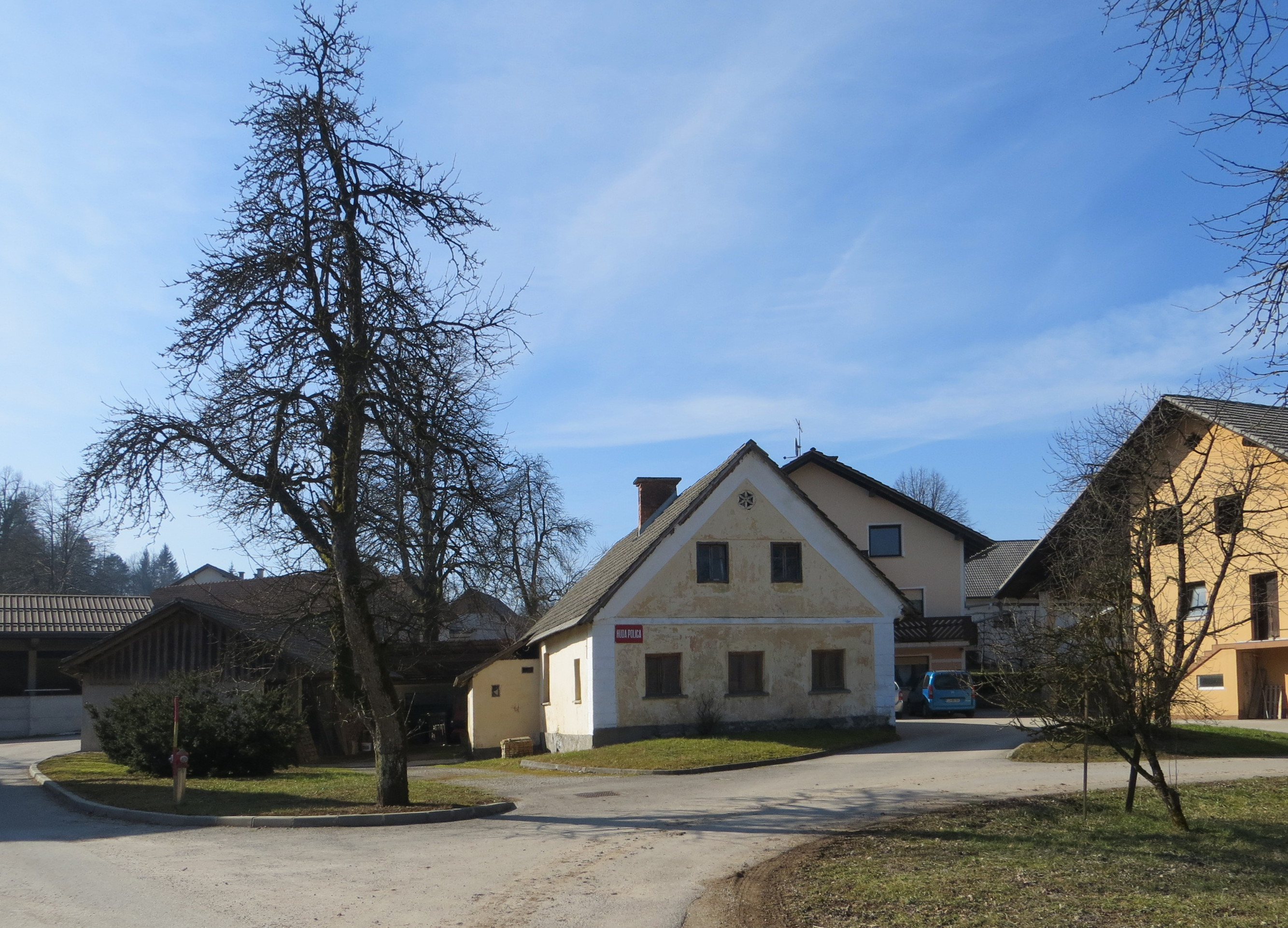 Huda Polica, Municipality of Grosuplje, Slovenia